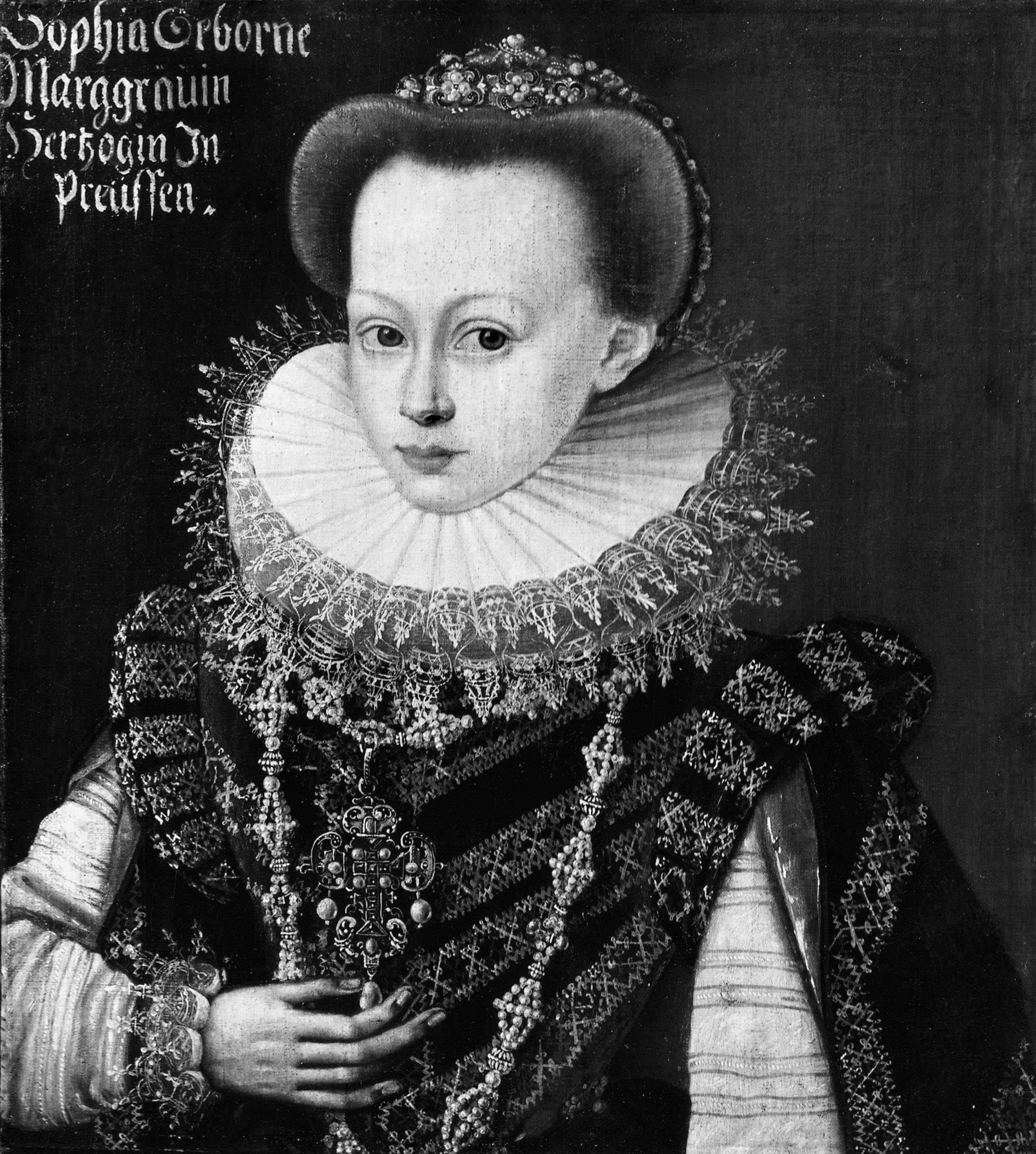 Portrait of Princess Sophie of Brandenburg